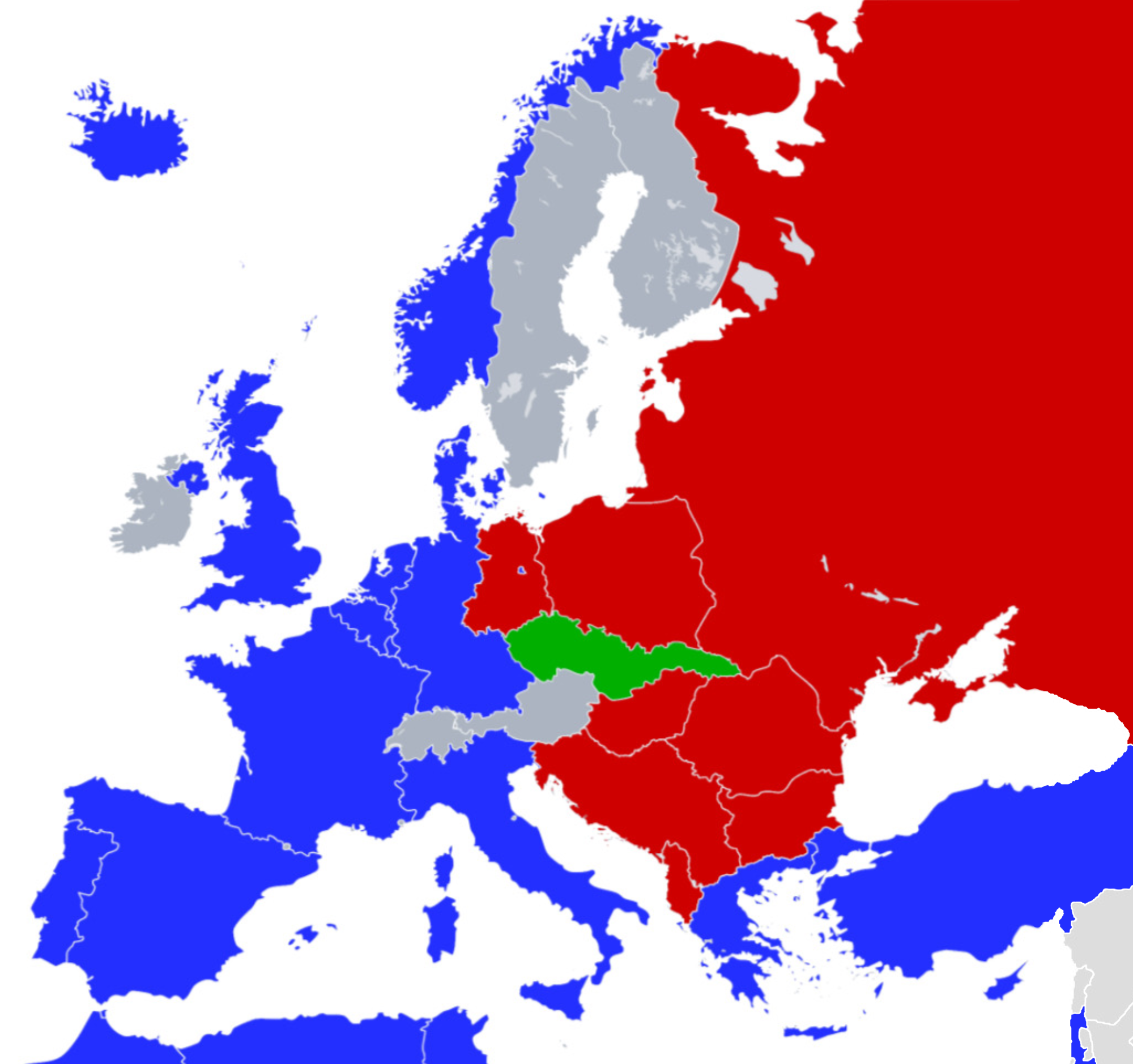 Map of the Third Republic (nor Carpathian Ukraine) between the Soviet sphere of influence (in front of the Tito-Stalin split) and the western Allies. (Czechoslovakia as a bridge between East and West, according by Edvard Benes)